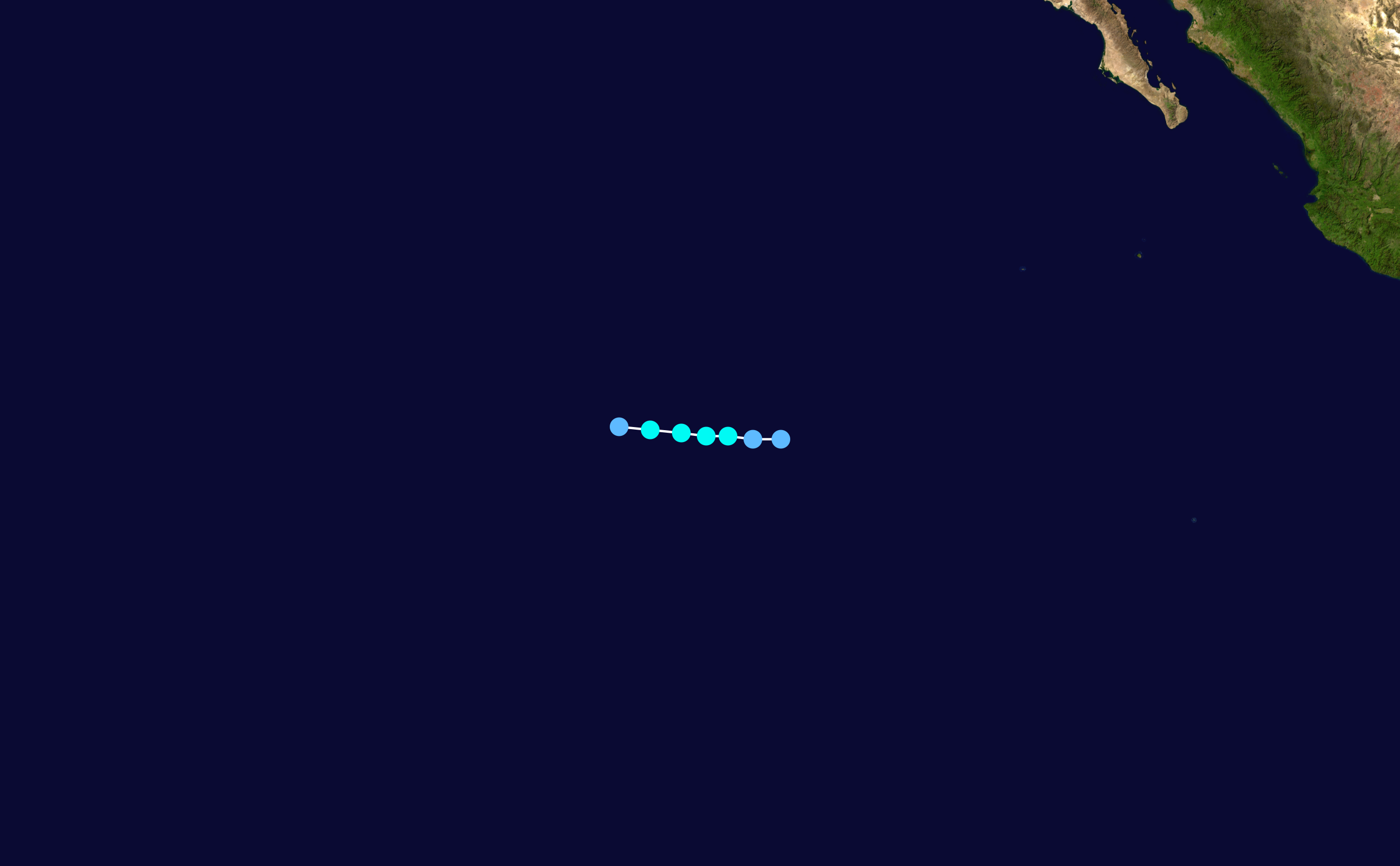 Track map of Tropical Storm Erick of the 2007 Pacific hurricane season. The points show the location of the storm at 6-hour intervals. The colour represents the storm's maximum sustained wind speeds as classified in the Saffir–Simpson scale (see below), and the shape of the data points represent the nature of the storm, according to the legend below. Saffir–Simpson scale Tropical depression≤38 mph≤62 km/h Category 3111–129 mph178–208 km/h Tropical storm39–73 mph63–118 km/h Category 4130–156 mph209–251 km/h Category 174–95 mph119–153 km/h Category 5≥157 mph≥252 km/h Category 296–110 mph154–177 km/h Unknown Storm type Tropical cyclone Subtropical cyclone Extratropical cyclone / Remnant low / Tropical disturbance / Monsoon depression